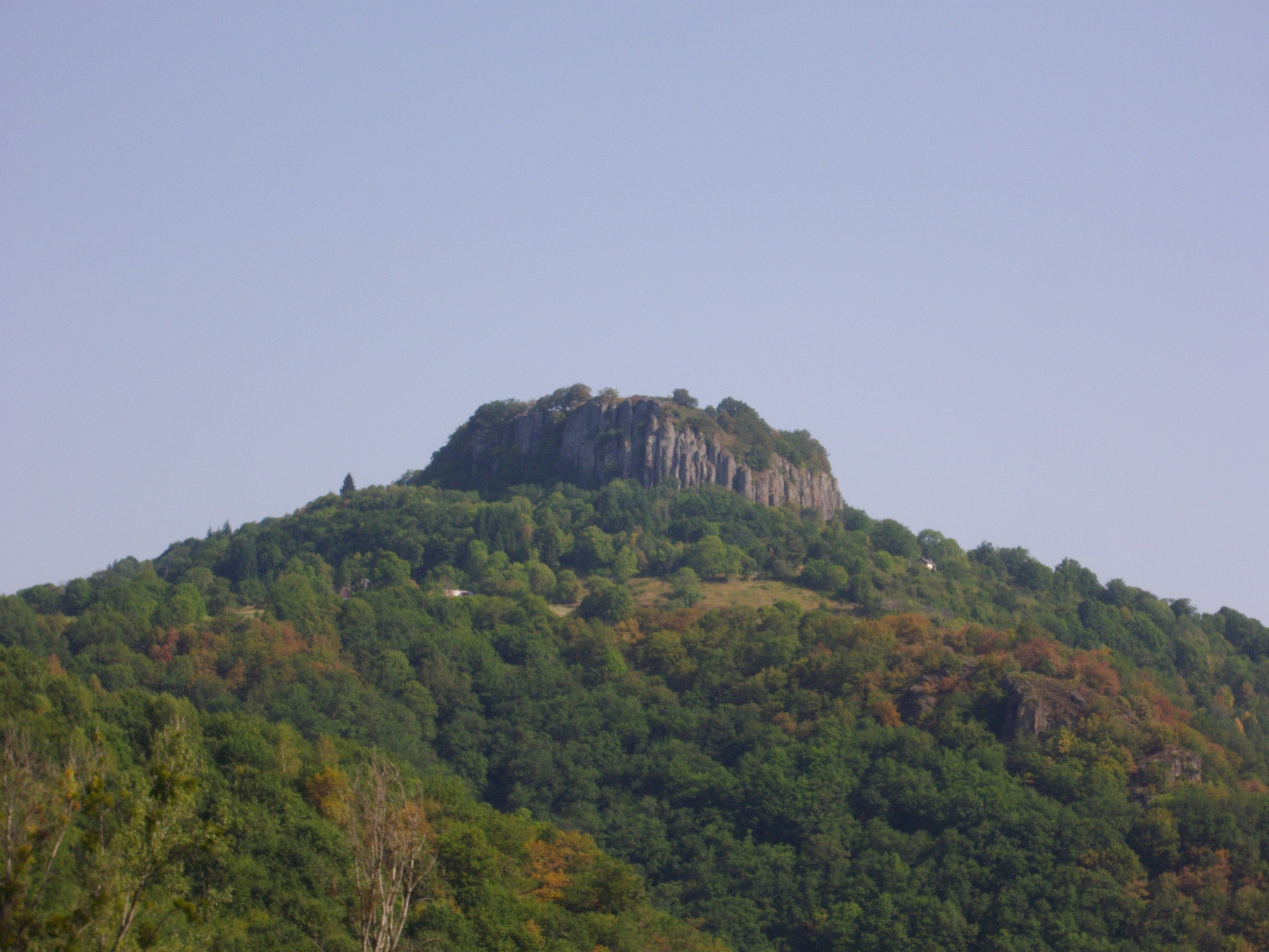 Geological formation of phonolites, known as Orgues de Bort in Bort-les-Orgues (Corrèze, France)